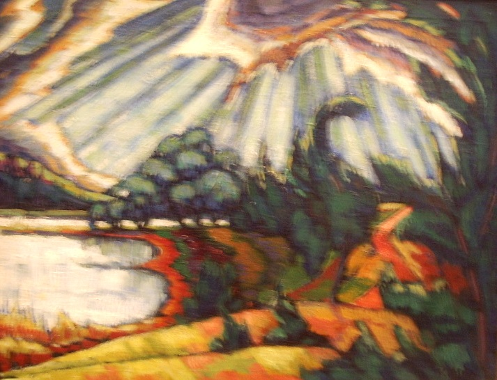 Konrad Mägi "Lake Pühajärv" 1918-1920 oil, canvas